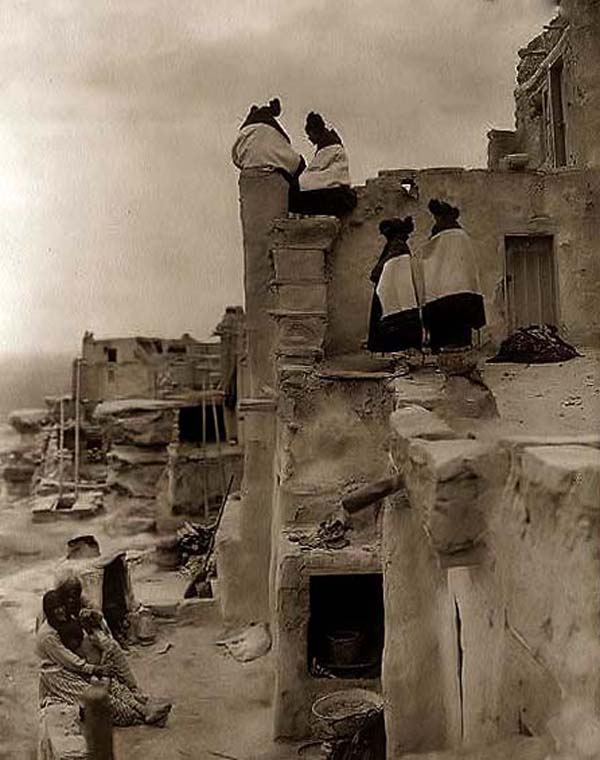 Here for your enjoyment is an inspiring photograph of Indian Pueble Housetop. It was made in 1906 by Edward S. Curtis. The photo illustrates Women seated and standing on pueblo buildings.